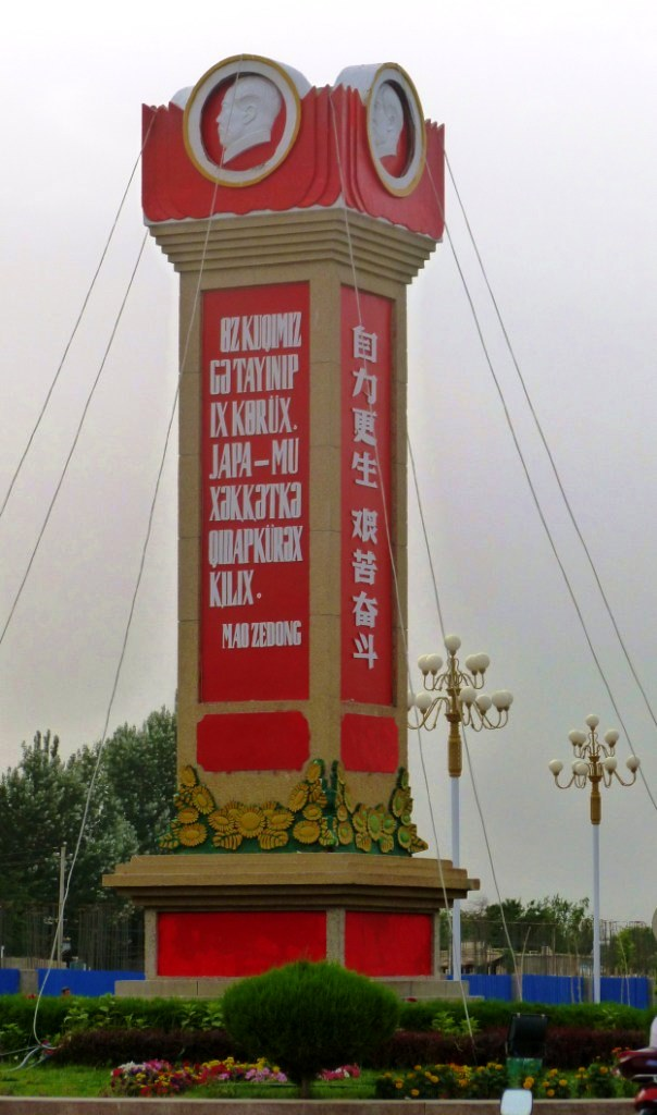 I took this photo on a trip through Xinjiang in 2011.